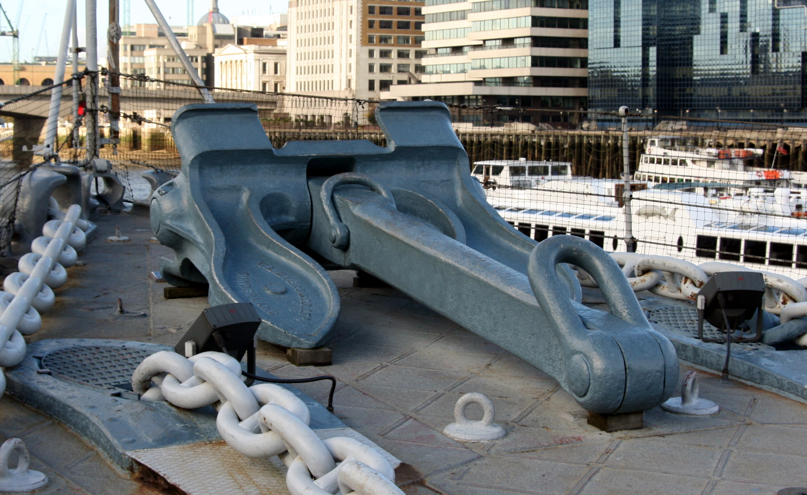 The spare anchor on HMS Belfast